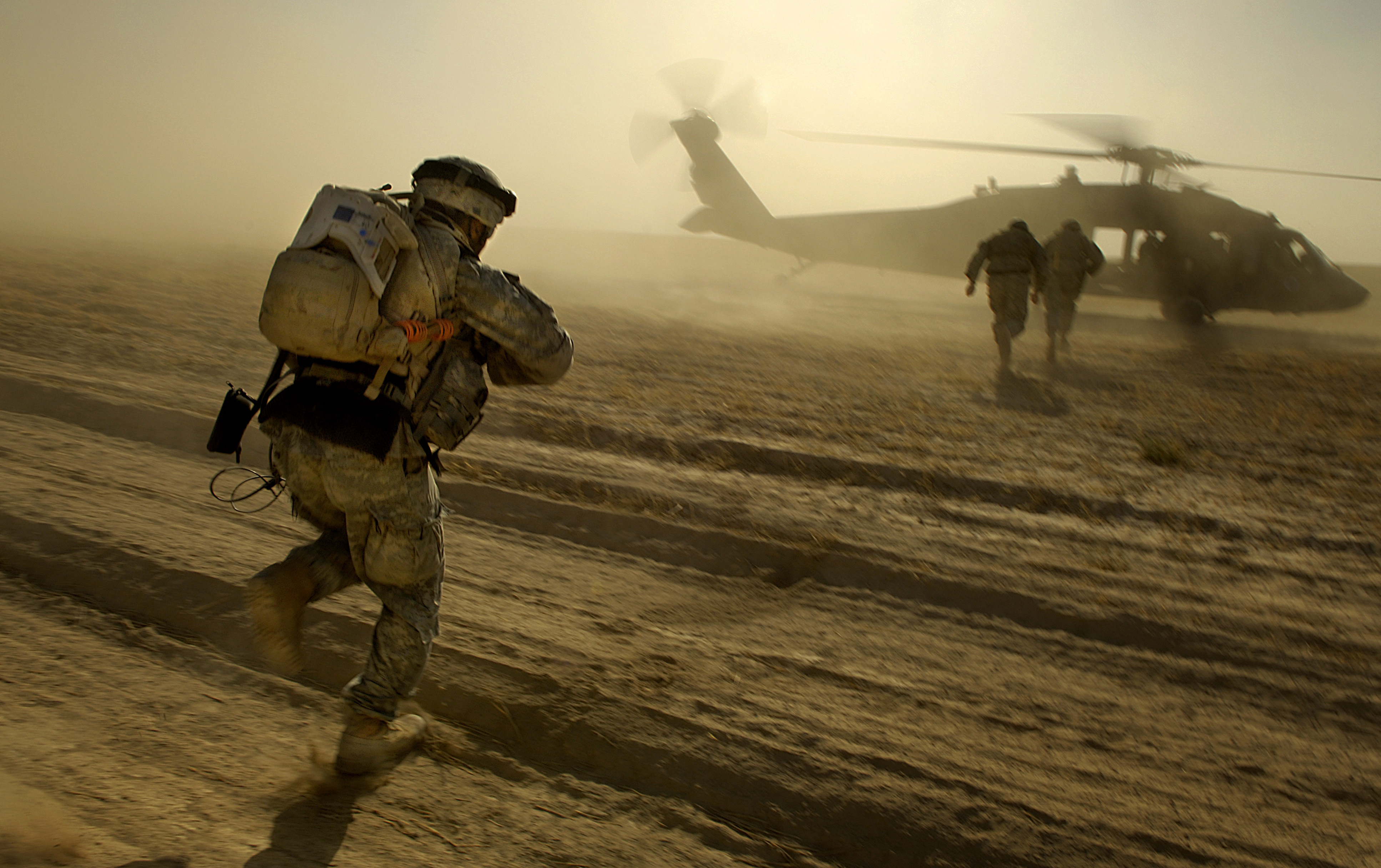 U.S. Army soldiers run towards a UH-60 Black Hawk helicopter as they are extracted after completing an aerial traffic control point mission near Tall Afar, Iraq, on June 5, 2006. The soldiers are from Bravo Company, 4th Battalion, 23rd Infantry Regiment, 172nd Stryker Brigade Combat Team and the Black Hawk aircrew is from Bravo Company, 1st Battalion, 207th Aviation, Alaska National Guard.